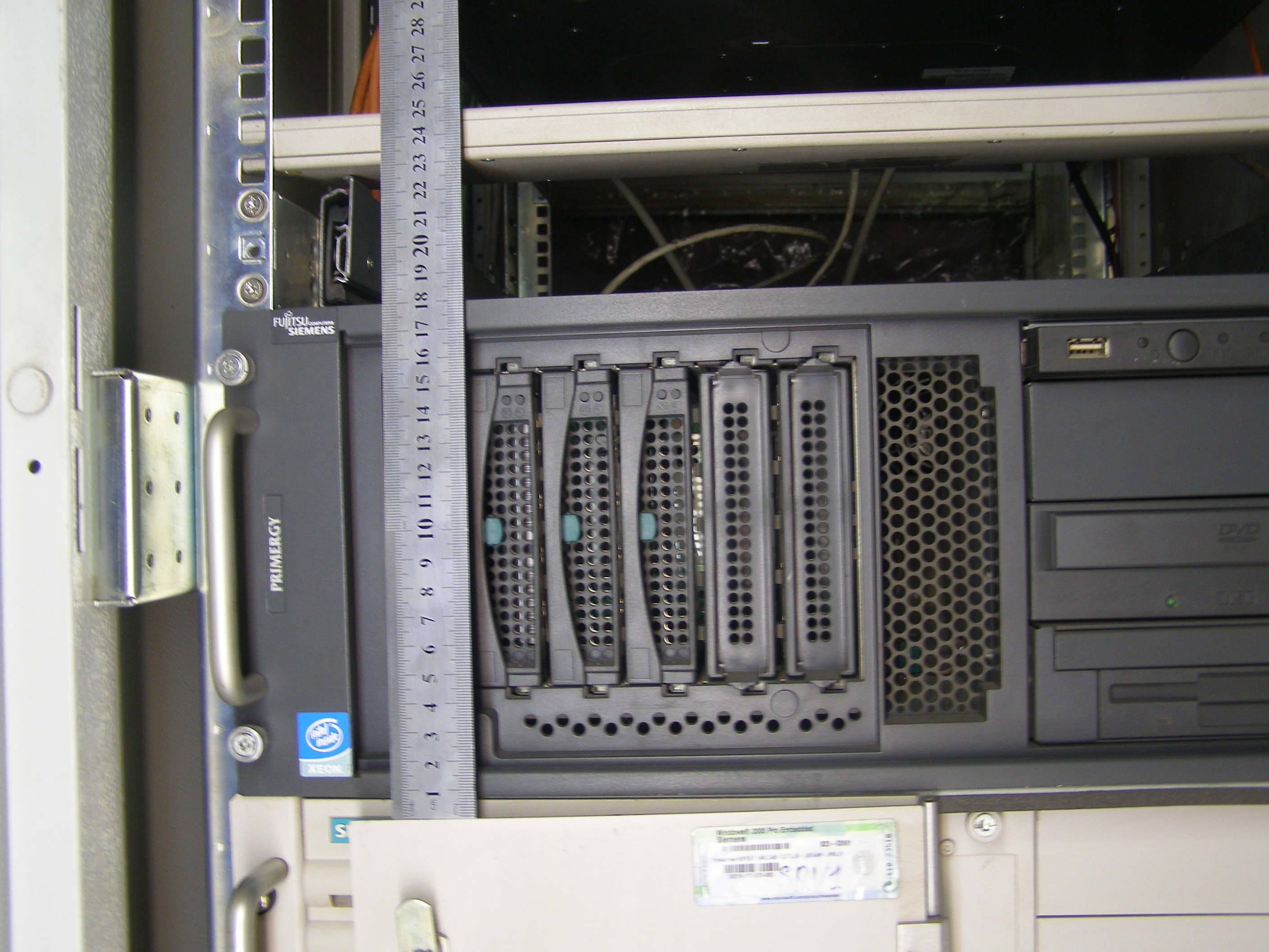 FSC Primergy TX200 - 4U rackmount server